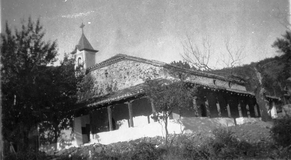 Cgurch in the village Kovanci (Gevgelija Municipality), 1931 This media file is produced by Wikipedian in Residence in Category:Wikipedian in Residence at DARM in 2016.